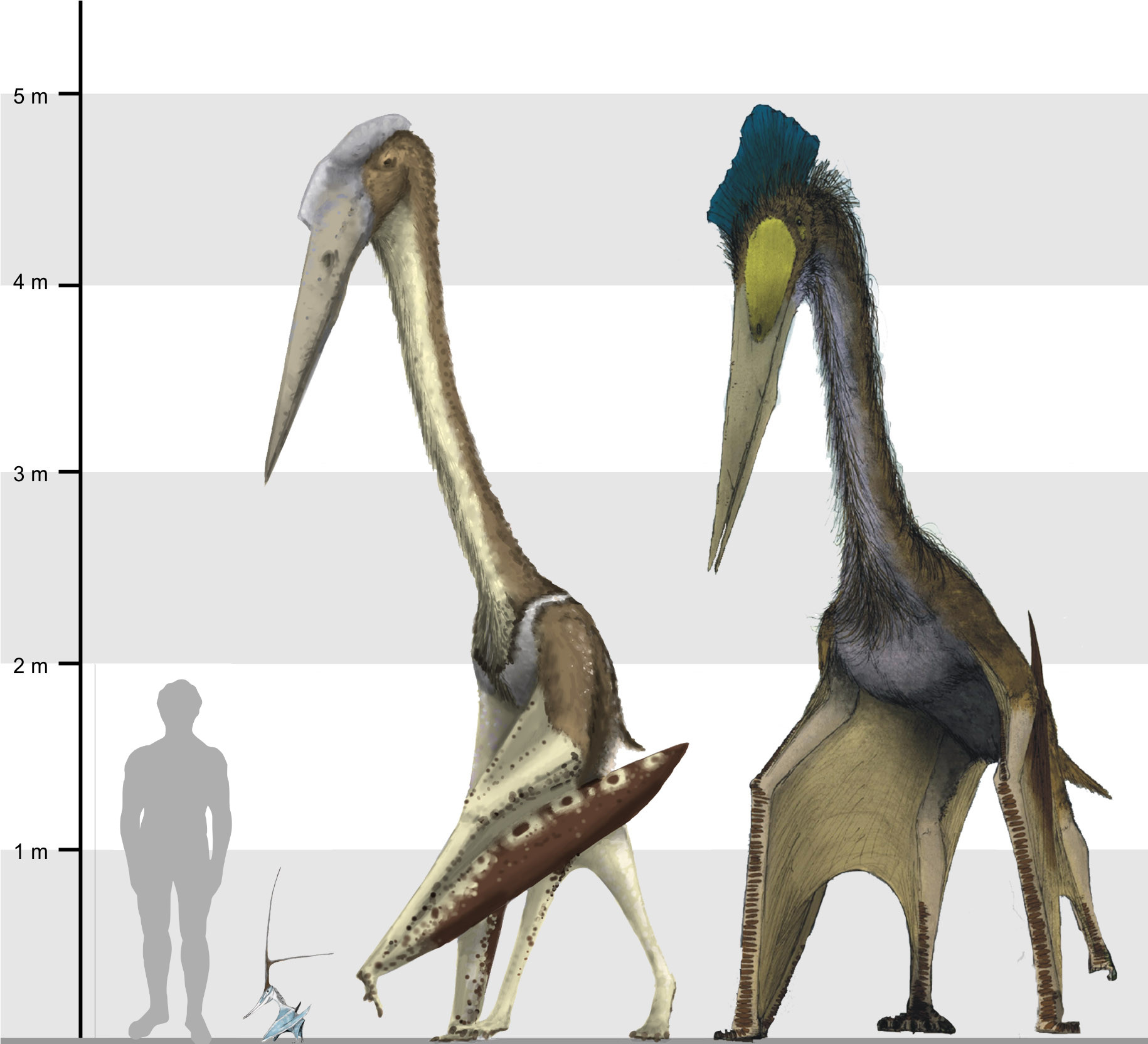 Arambourgiania, Nyctosaurus and Quetzalcoatlus scale